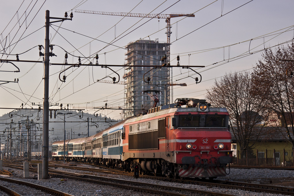 On the fast track